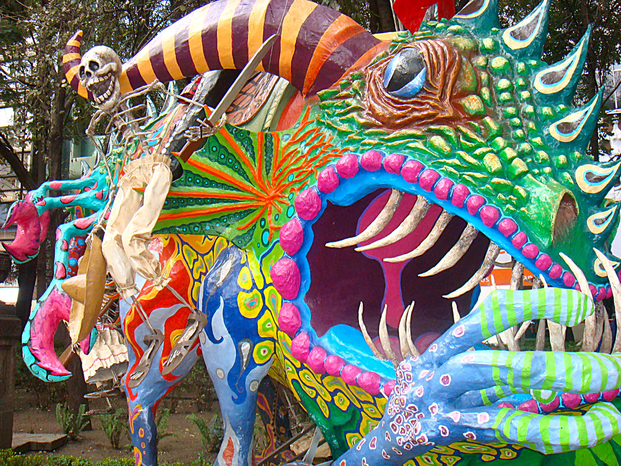 Alebrije . Temporary exposition at Reforma. Mexico City. 2010